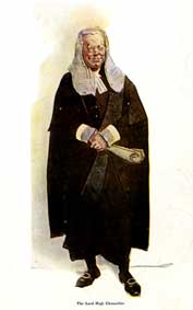 Hardinge Giffard, 1st Lord Halsbury, Lord Chancellor 1895-1905 From The Lordprice Collection This picture is the copyright of the Lordprice Collection and is reproduced on Wikipedia with their permission